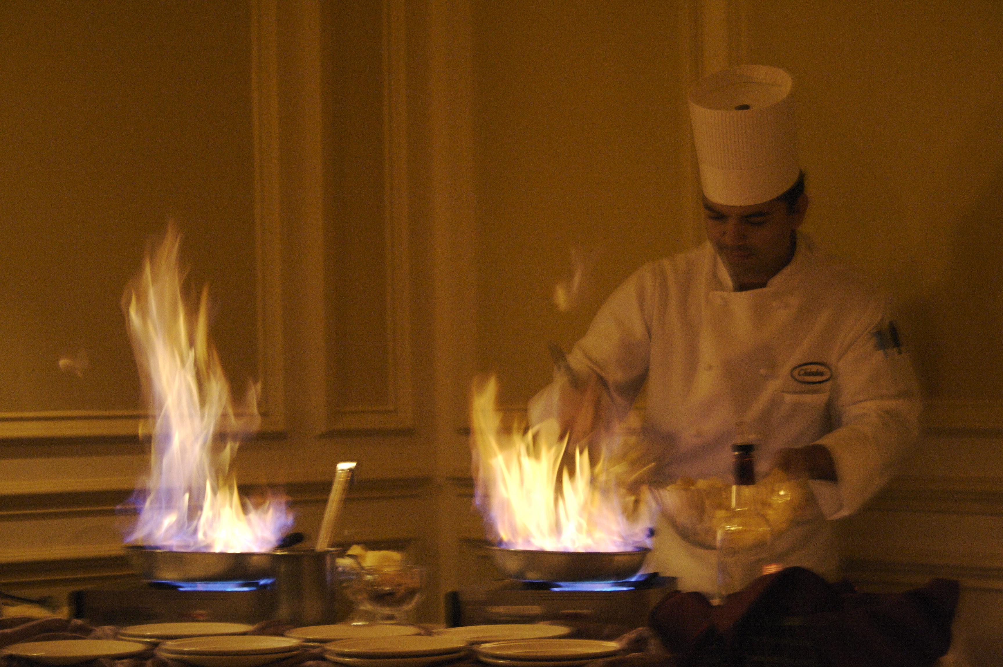 Thin crêpes flambéed with Grand Marnier, served over vanilla ice cream